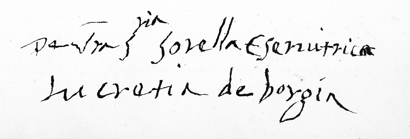 Signature of Lucrezia Borgia in a letter to her sister-in-law Isabella Gonzaga, March 1519. Reads: De V[ost]ra S[igno]ria sorella e servitrice Lucretia de Borgia, "Your Ladyship's sister and servant Lucretia de Borgia"